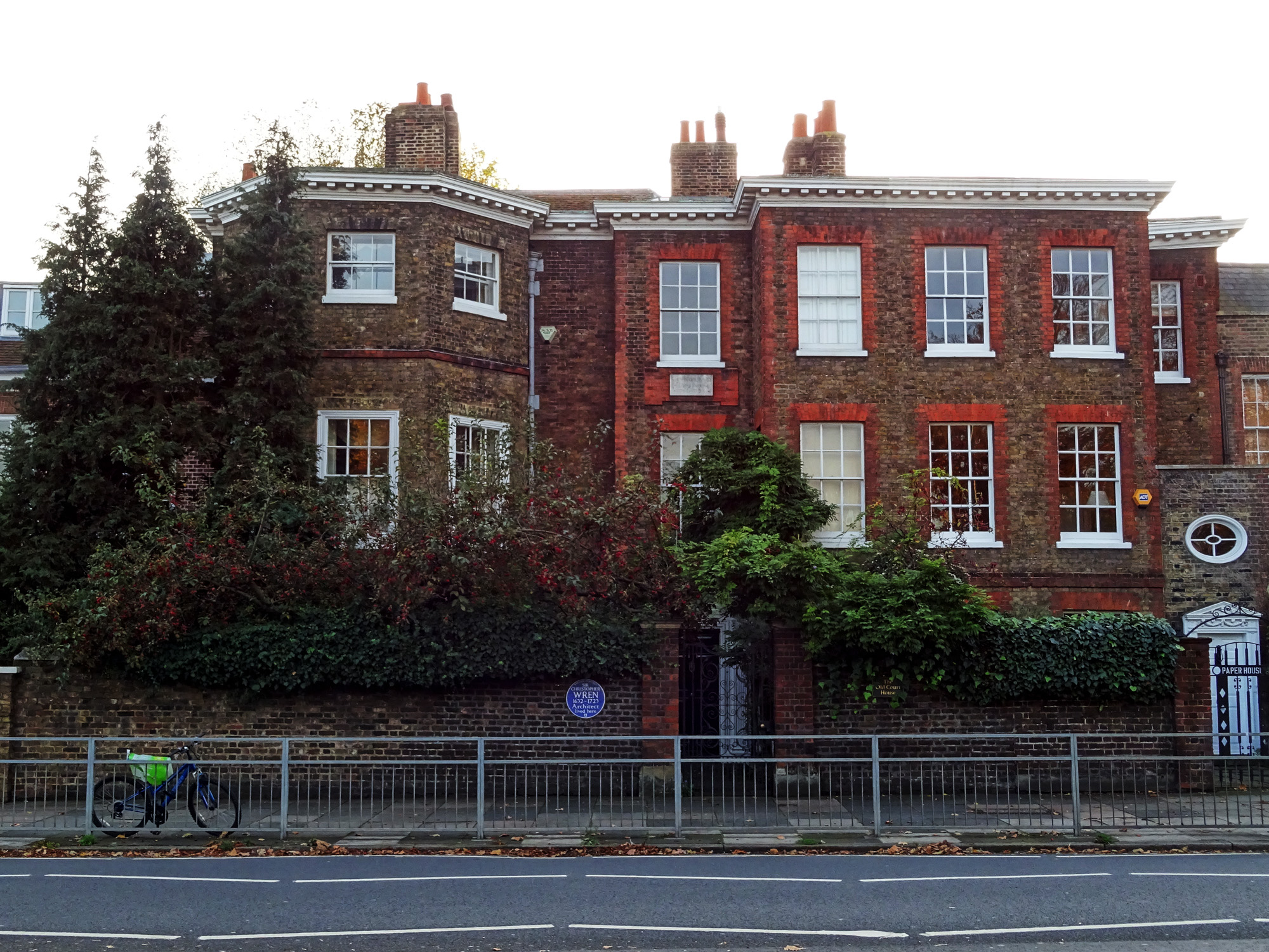 SIR CHRISTOPHER WREN 1632–1723 Architect lived here